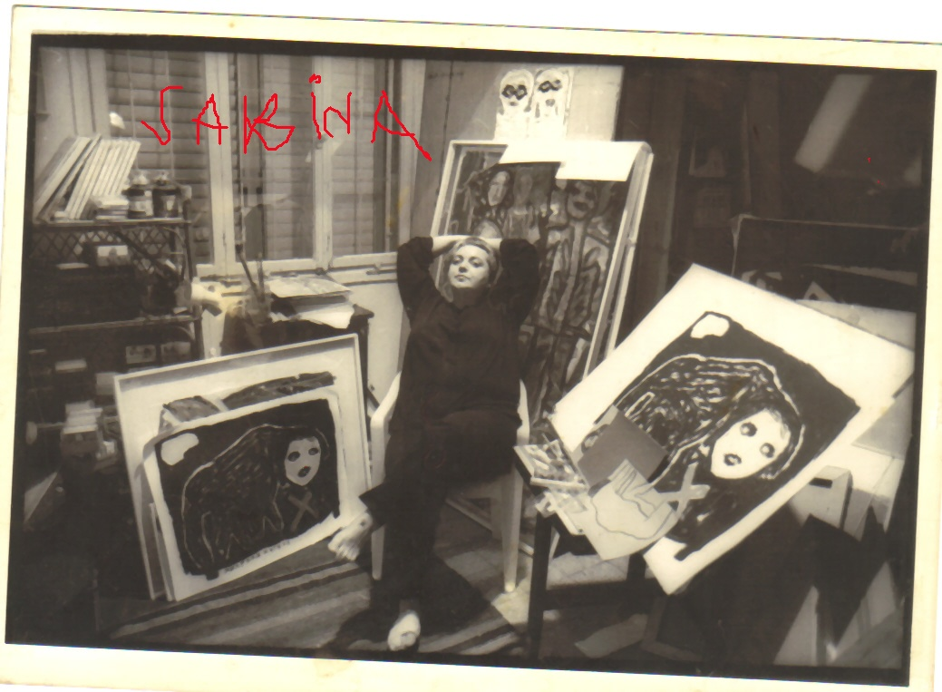 SABINA MANDEL in her home studio.